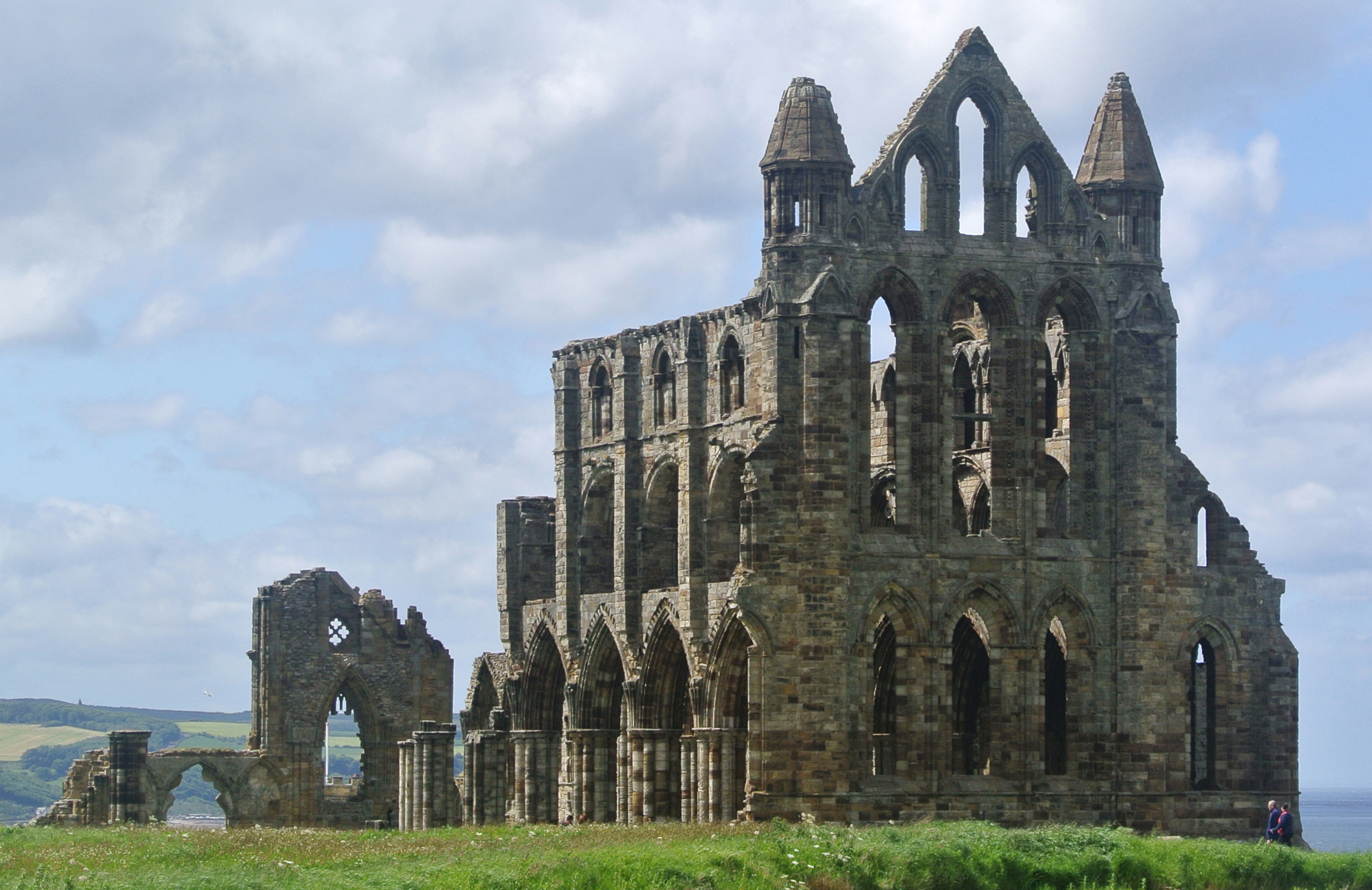 Whitby Abbey, North Yorkshire.